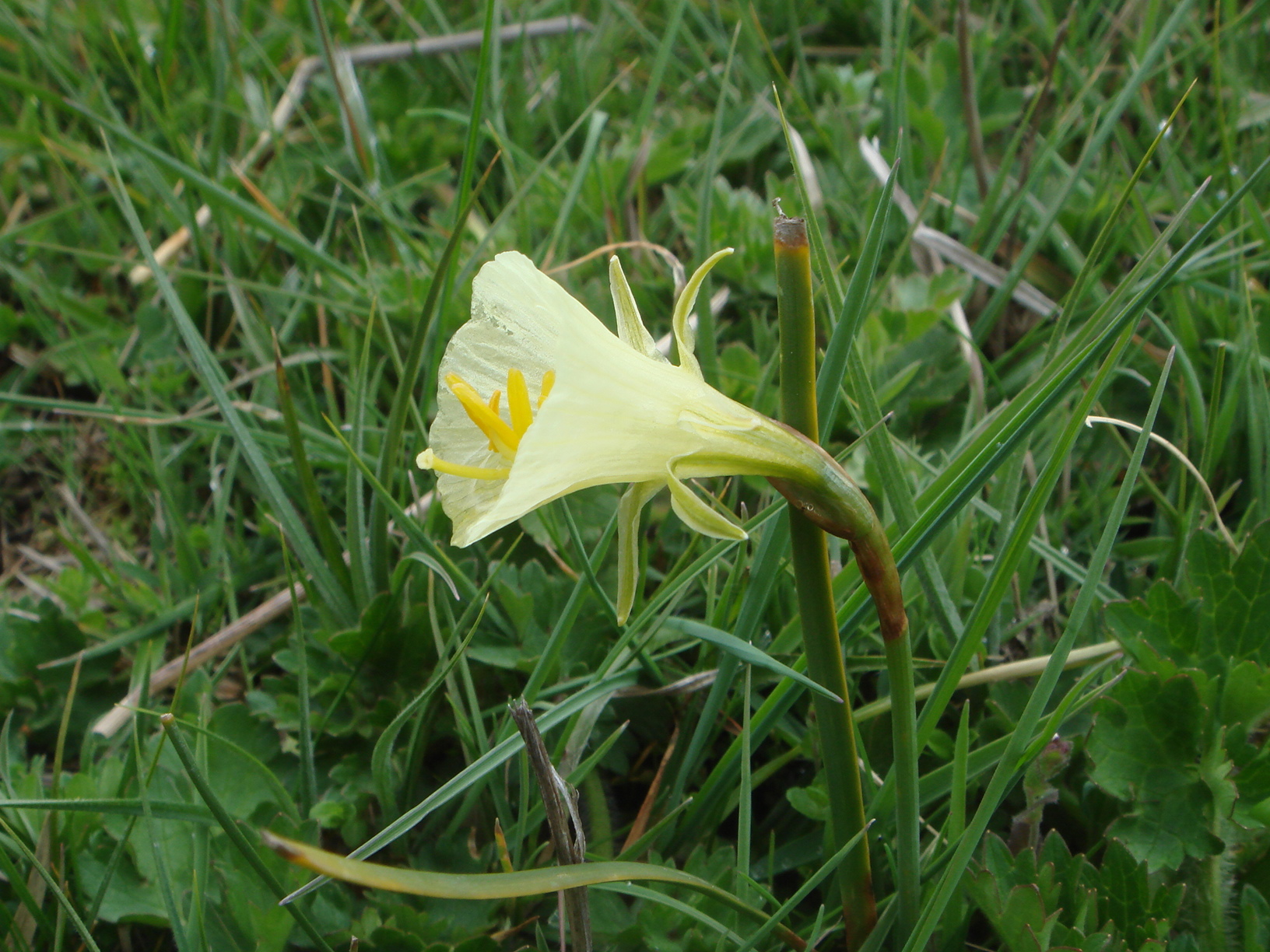 Narcissus bulbocodium subsp. graellsii. La Torre (Ávila) Spain.